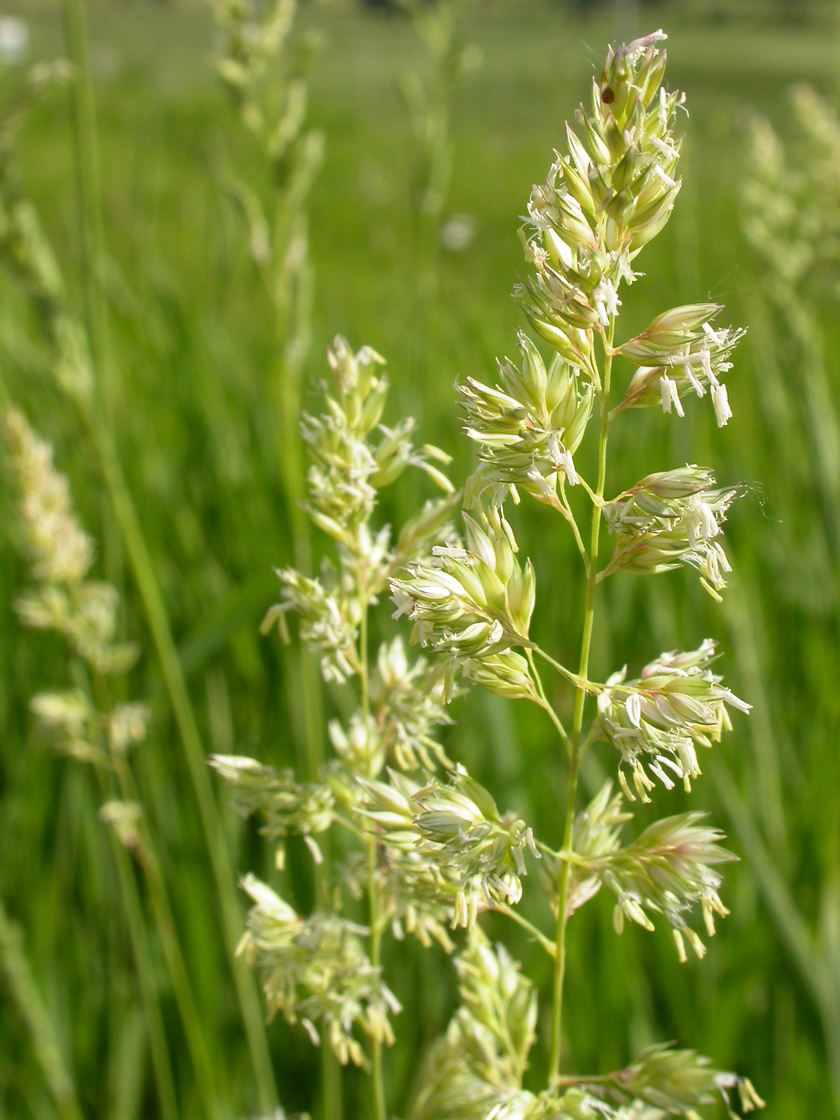 The inflorescence is narrow and contracted early and late in the year, but during mid summer flowering, the panicle branches spread and the spike opens.